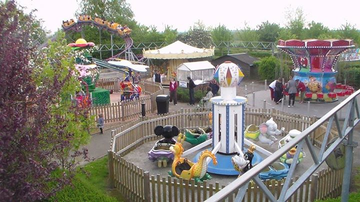 Cartoon Land